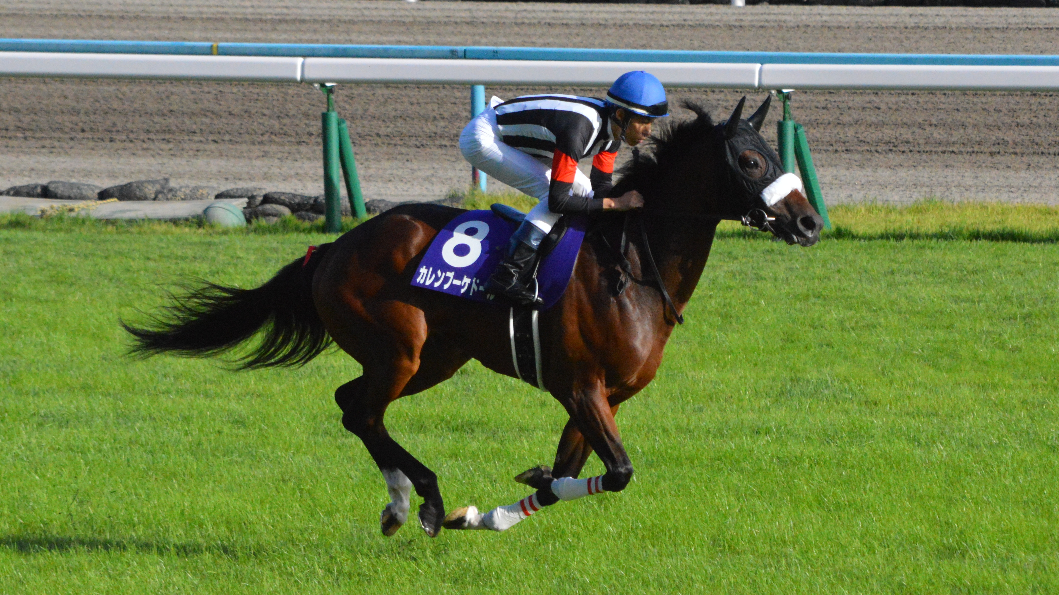 Japanese race horse Curren Bouquetd'or at Kyoto racecourse.